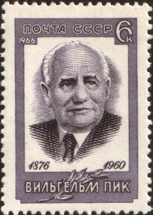 Stamp of USSRː Sun Yat-sen (1866-1925), leader of the Chinese revolution. Issueː Portraits